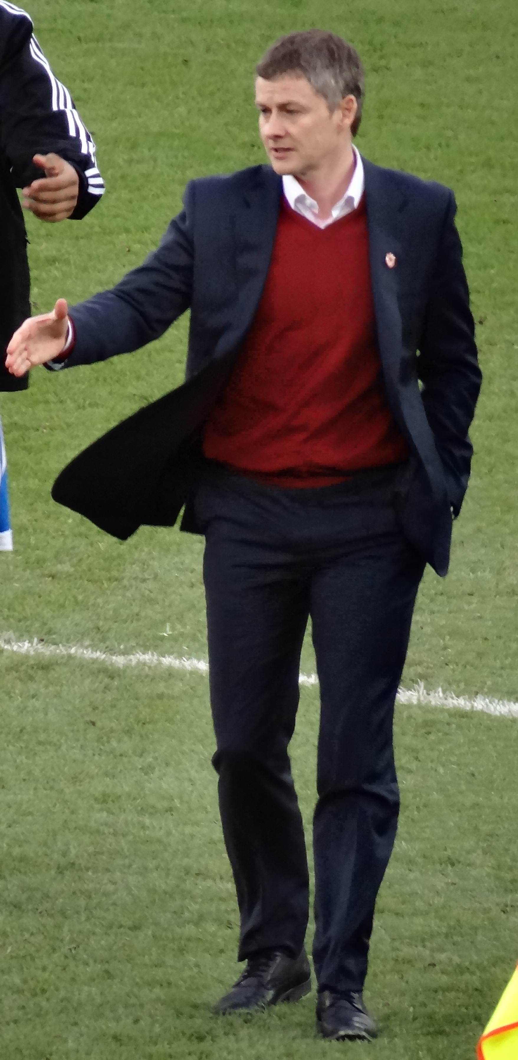 Ole Gunnar Solskjaer, manager of Cardiff City offering a post-match handhsake. 22/02/14 Cardiff City v Hull City, Premier League, Cardiff City Stadium, Cardiff, Wales